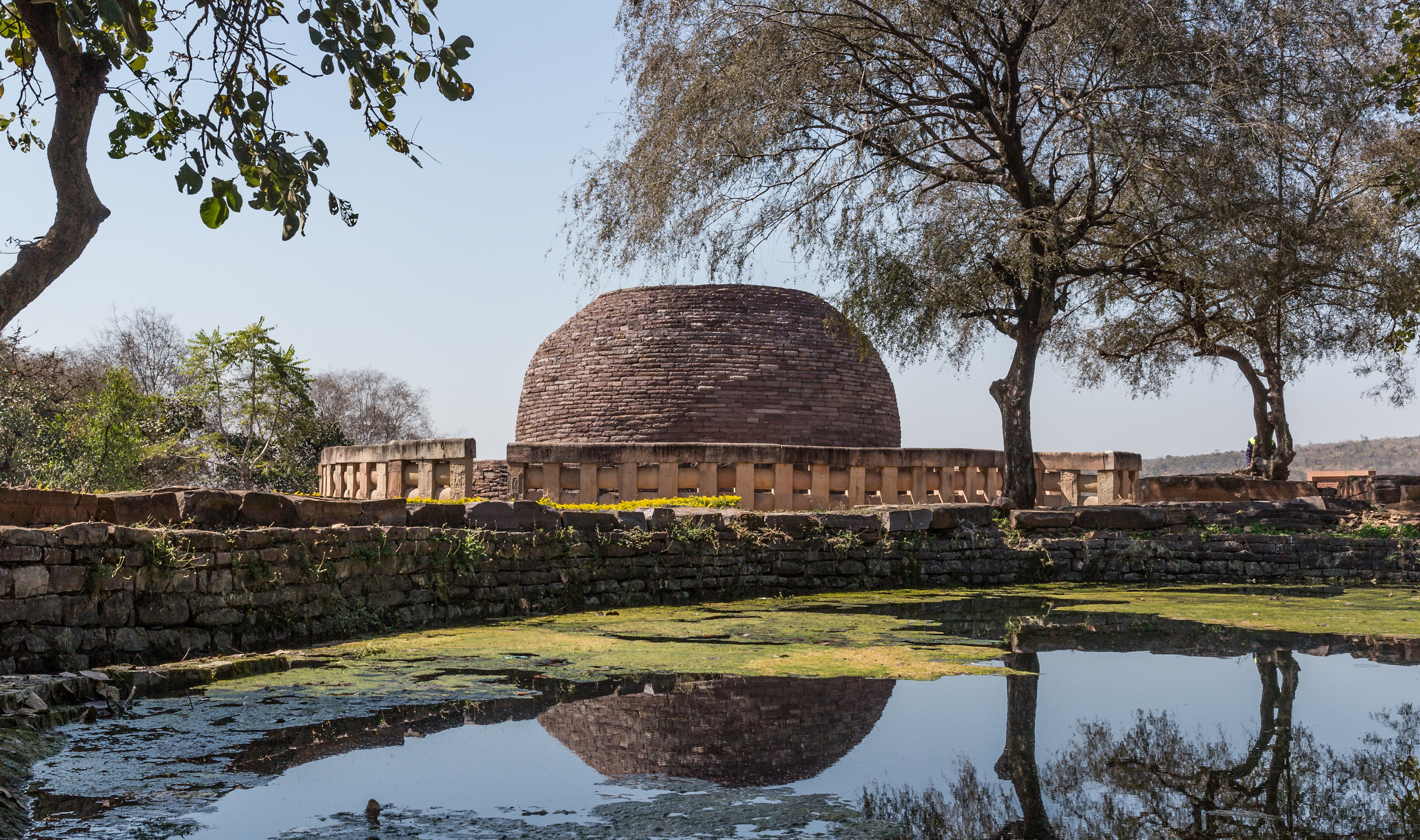 Sanchi Stupa No2